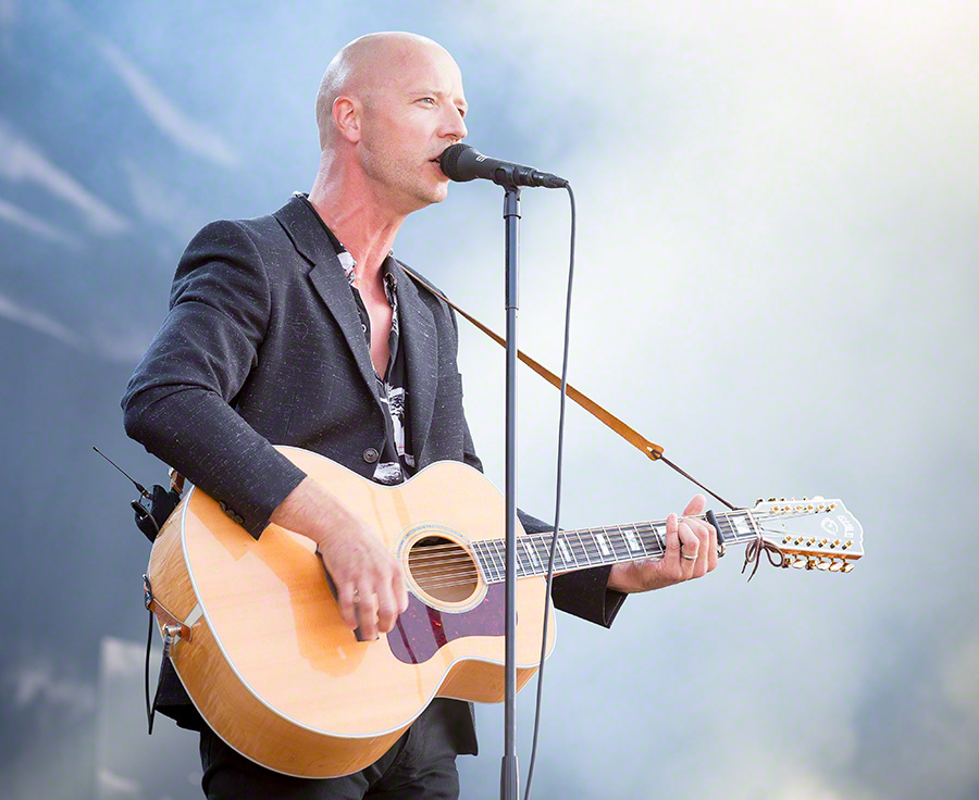 Sivert Høyem at the main stage during Stavernfestivalen in Stavern on 09. July 2016. Lineup:Sivert Høyem (guitar / vocal)Christer Knutsen (guitar)Cato Salsa (guitar)Øystein Frantzvåg (bass)Børge Fjordheim (drums)